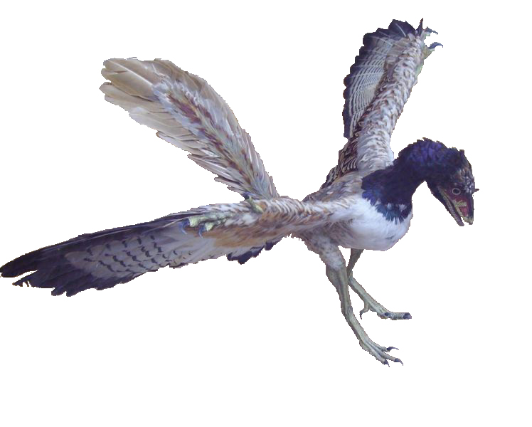 Archaeopteryx, Oxford Museum. Derivative background cut from Commonns' File:Archaeopteryx 2.JPG 07:17, 9 July 2006 Ballista 2040×1636 (1,812,348 bytes)